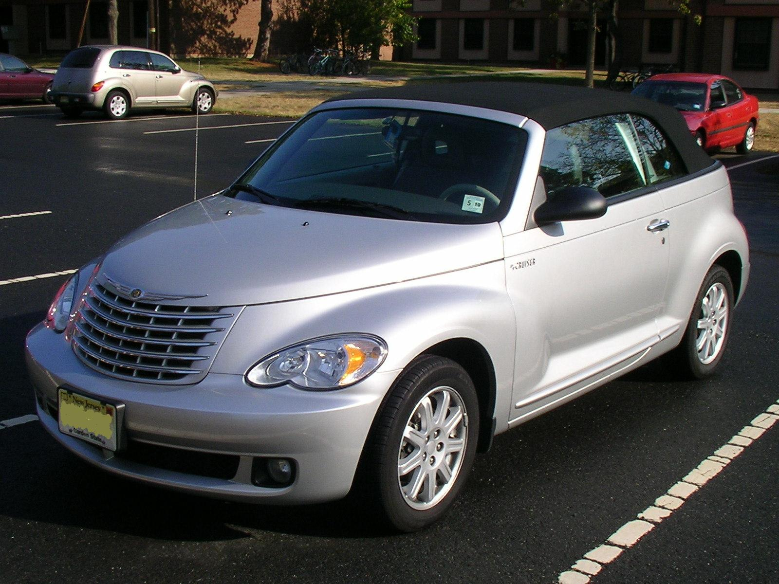 2006 Chrysler PT Cruiser Convertible - USA Taken by t-nissie in August 2006 and released to the public domain.